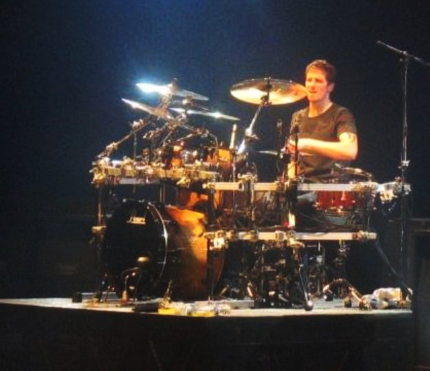 Daniel Adair, I took that photo during the Nickelback concert on February 28, 2007 at the Quest Center in Omaha, NE.